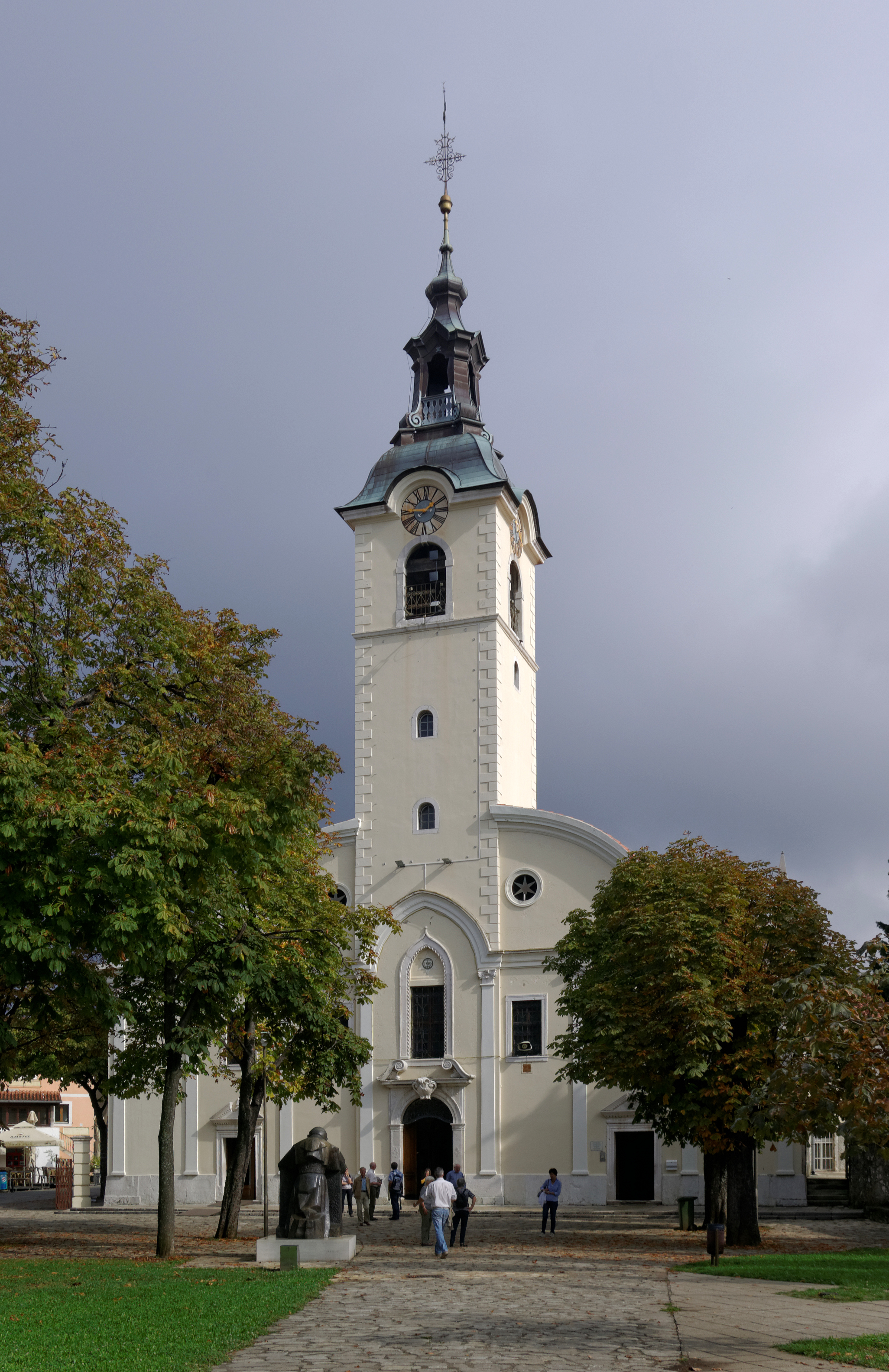 Croatia, Trsat, Church of Our Lady